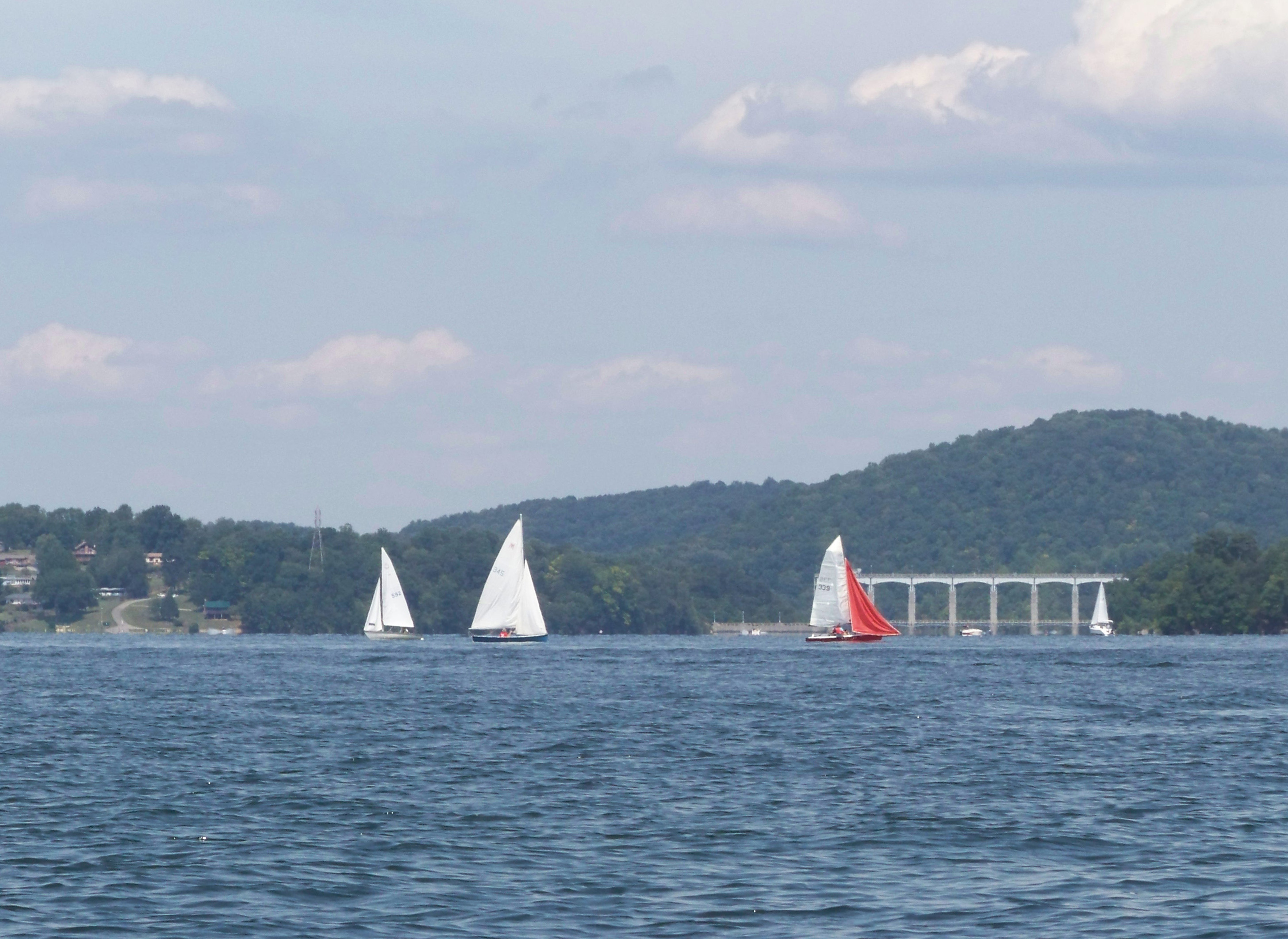 Uploaded by PE